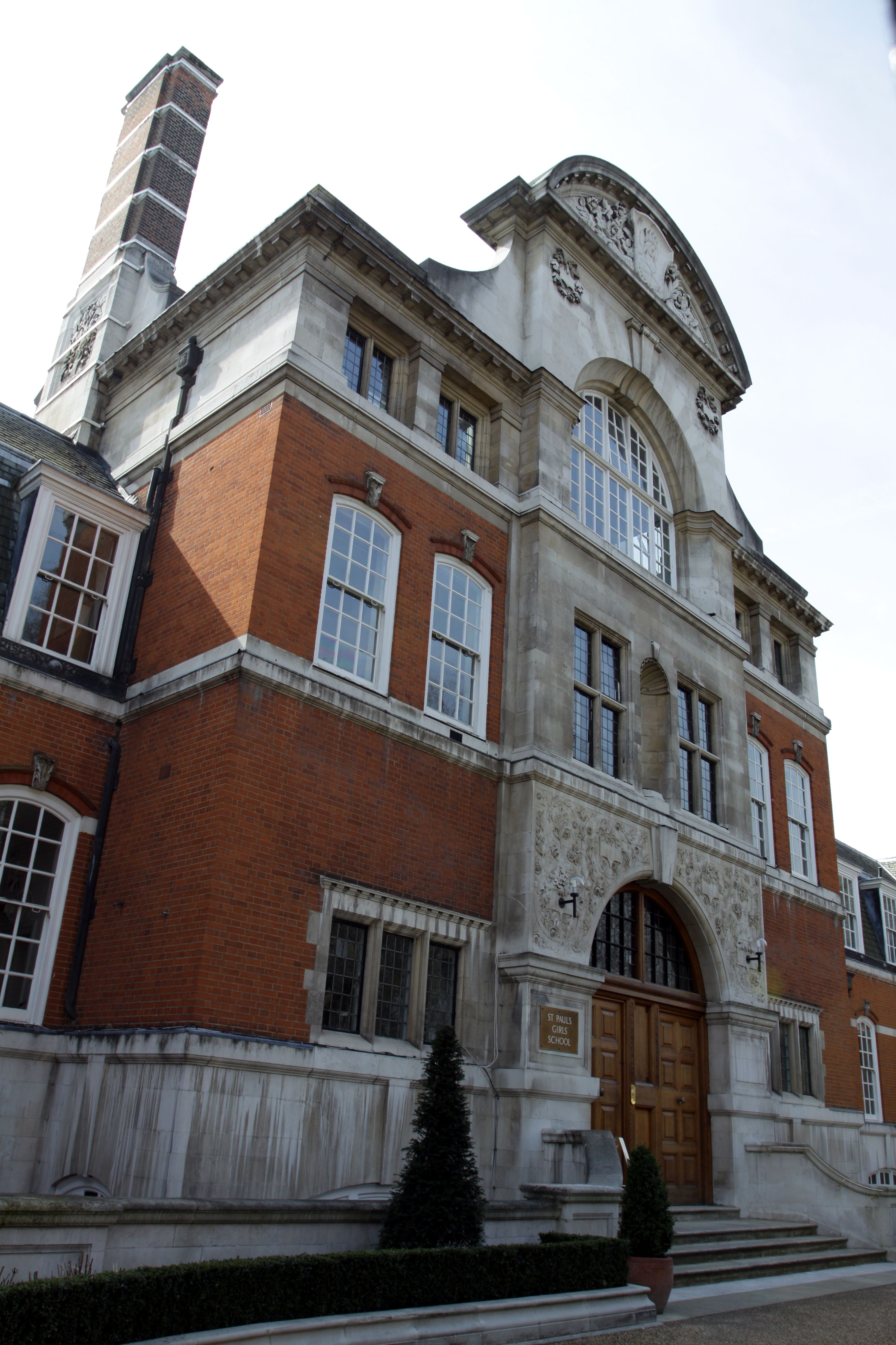 St Paul's Girls' School is an independent day school for girls, located in Brook Green, Hammersmith in the London Borough of Hammersmith and Fulham, London, England, Great Britain. The making of this file was supported by Wikimedia UK.